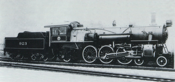 Builder's photo of South Manchuria Railway locomotive Pashishi923.